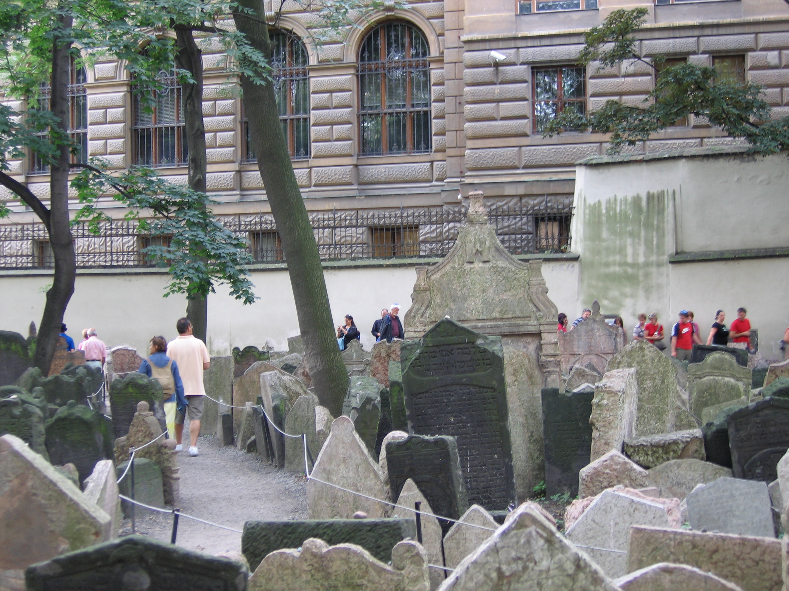 Old Jewish Cemetery. Josefov, Prague.